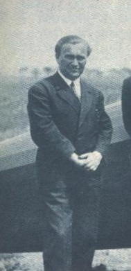 Alois Šmolík (1893 – 1952) was a Czech aircraft designer.